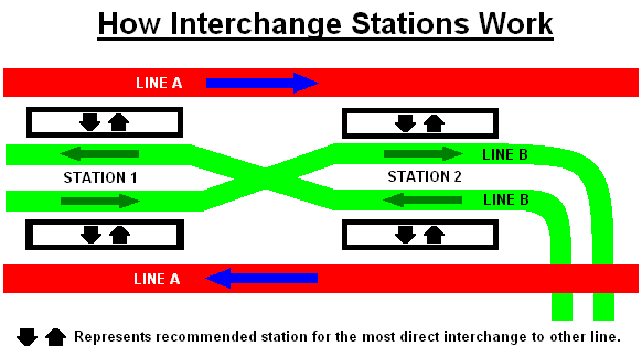 How an interchange station works, especially a Cross-Platform Interchange.